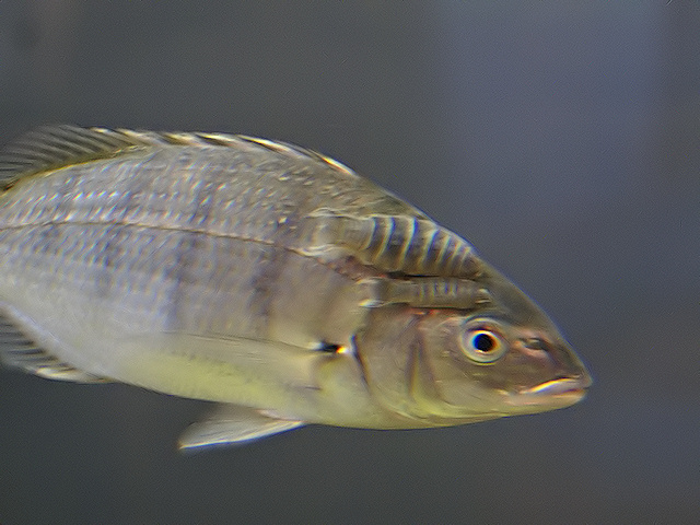 Parasitic isopod on West Coast steenbras in the Swakopmund Aquarium at the National Marine Information & Research Centre in Namibia.